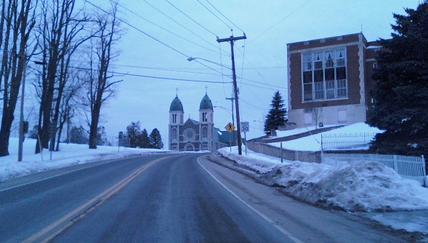 Cathedral is in Keeseville, New York, made in the French architectural tradition. This photo highlights the unique French culture of the extreme Northeastern portion of New York State.